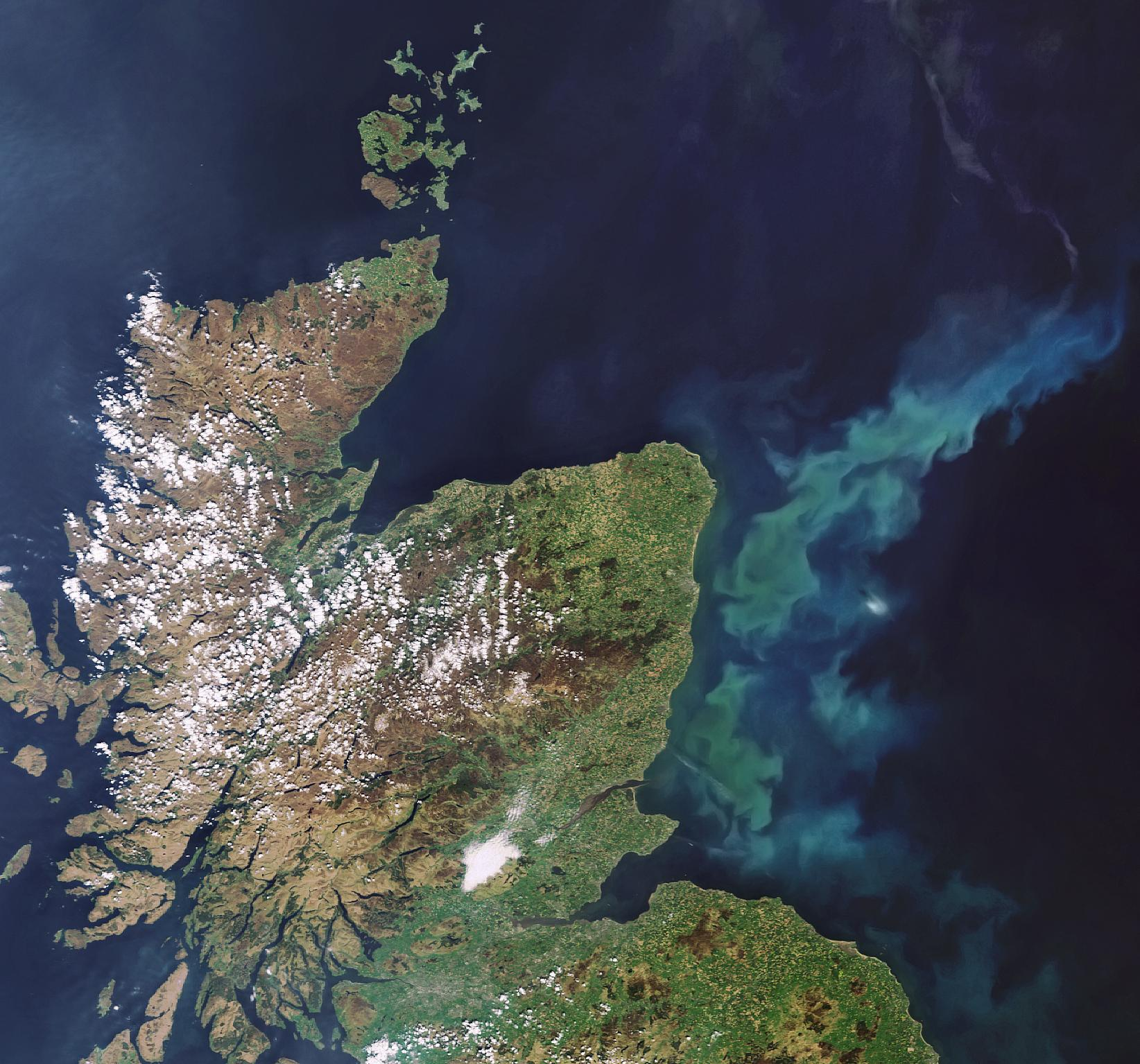 This Envisat image captures the green swirls of a phytoplankton bloom in the North Sea off the coast of eastern Scotland. The chlorophyll phytoplankton collectively contain colour the ocean's waters, which provides a means of detecting these tiny organisms from space with dedicated ocean colour sensors, like Envisat's Medium Resolution Imaging Spectrometer (MERIS) instrument. MERIS acquired this image on 7 May 2008, working in Full Resolution mode to provide a spatial resolution of 300 m.